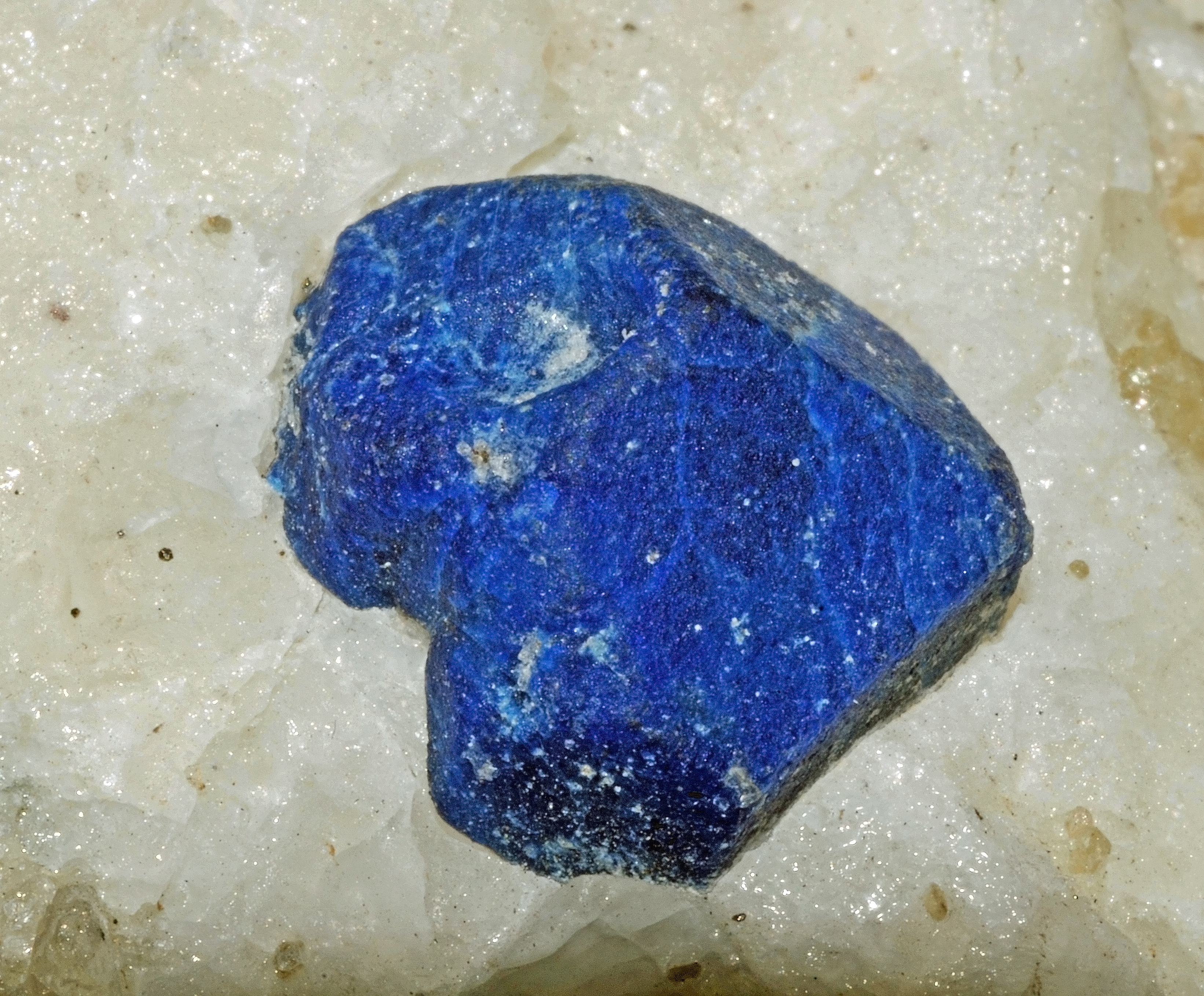 crystal of lazurite, calcite : Ladjuar Medam (Lajur Madan ; Lapis-lazuli Mine ; Lapis-lazuli deposit), Sar-e Sang (Sar Sang ; Sary Sang), Koksha Valley (Kokscha Valley ; Kokcha Valley), Khash & Kuran Wa Munjan Districts, Badakhshan Province (Badakshan Province ; Badahsan Province), Afghanistan